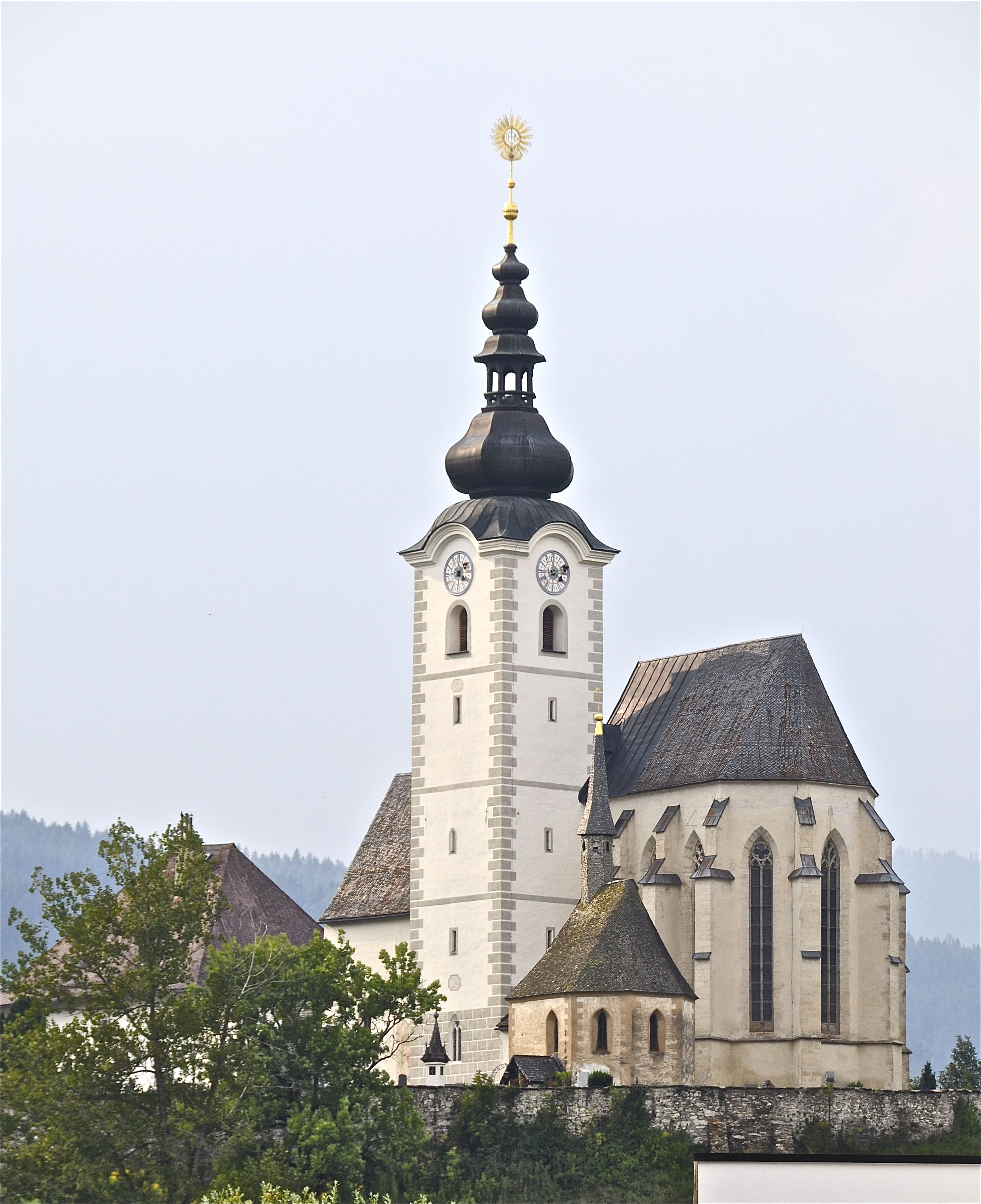 Parish church Saint Margaret, cemetery with lantern of the dead and ossuary in Lieding, municipality Strassburg, district Sankt Veit an der Glan, Carinthia, Austria, EU